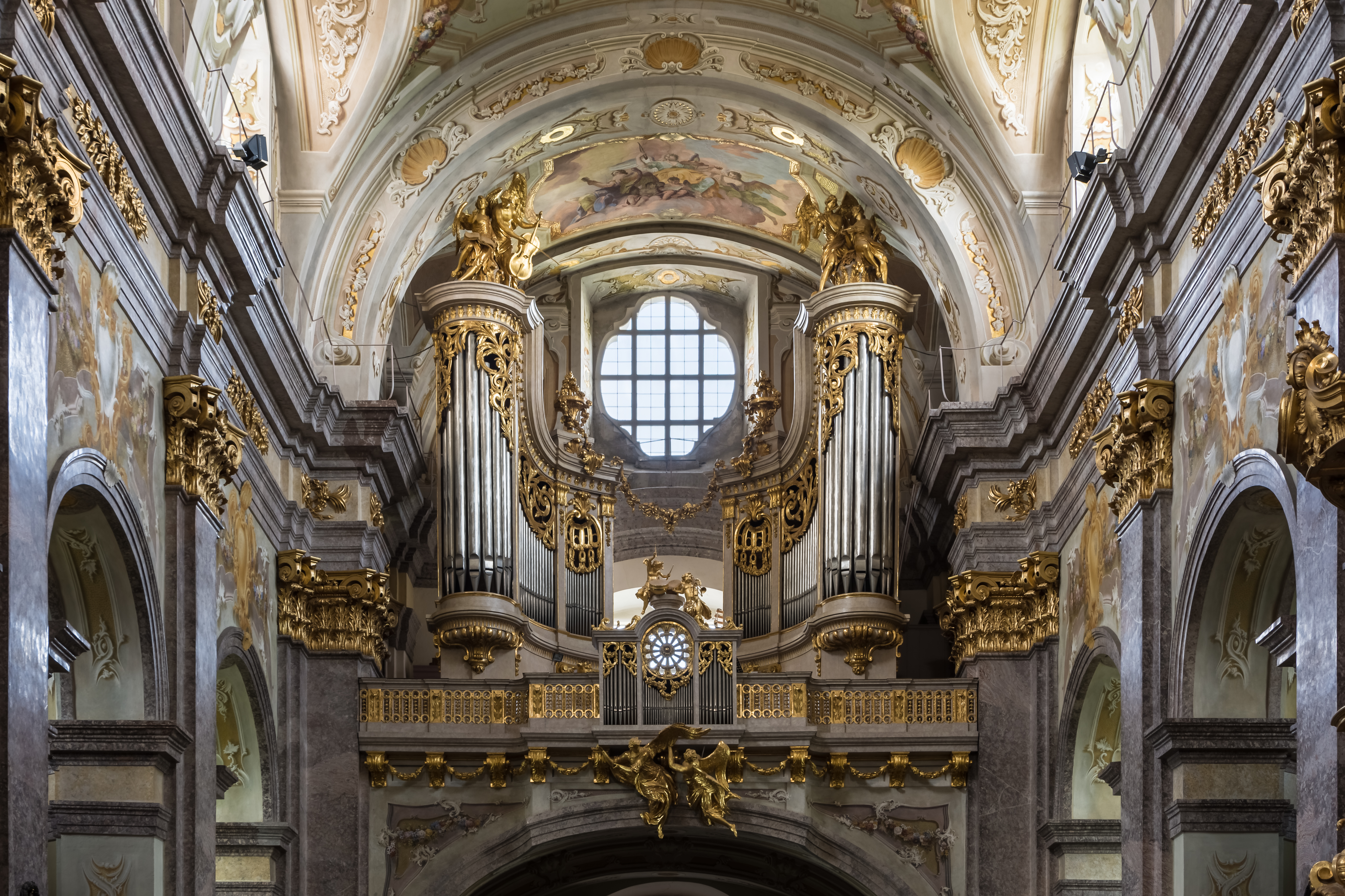 Organ of Sonntagberg Basilica, Lower Austria. Franz Xaver Christoph, II/25, built 1774–1776.